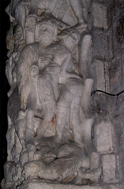 Souillac Abbey. France